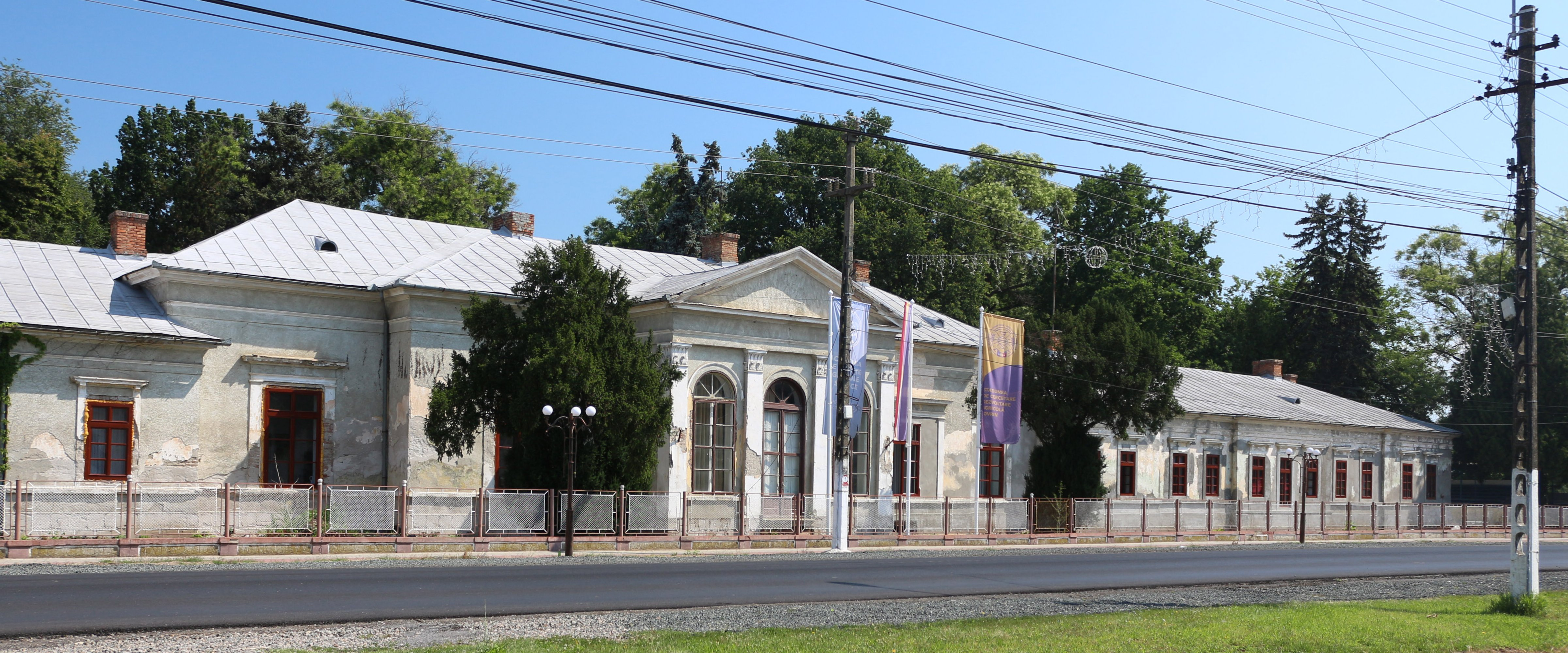 Liptay Mansion, Lovrin, Timiș County, built 1820